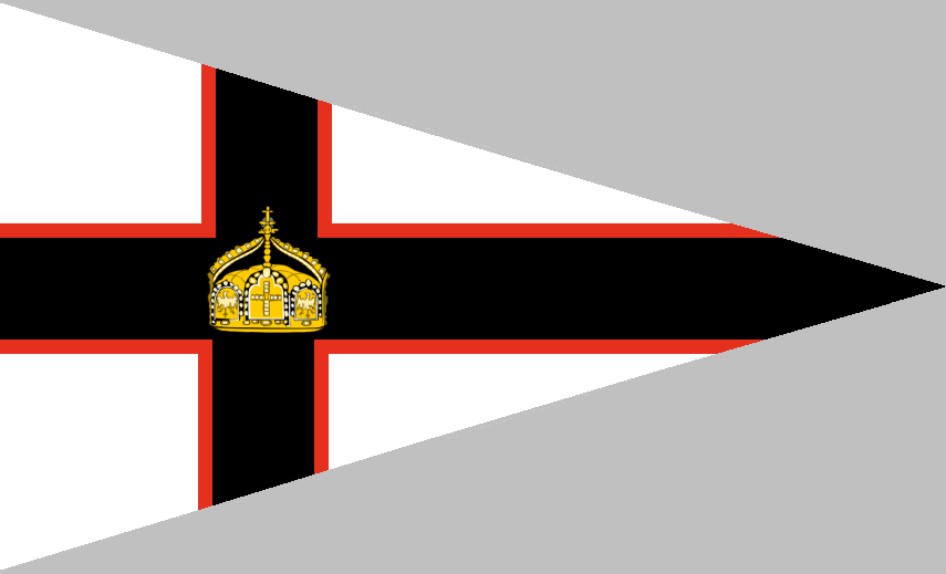 Yacht club flag